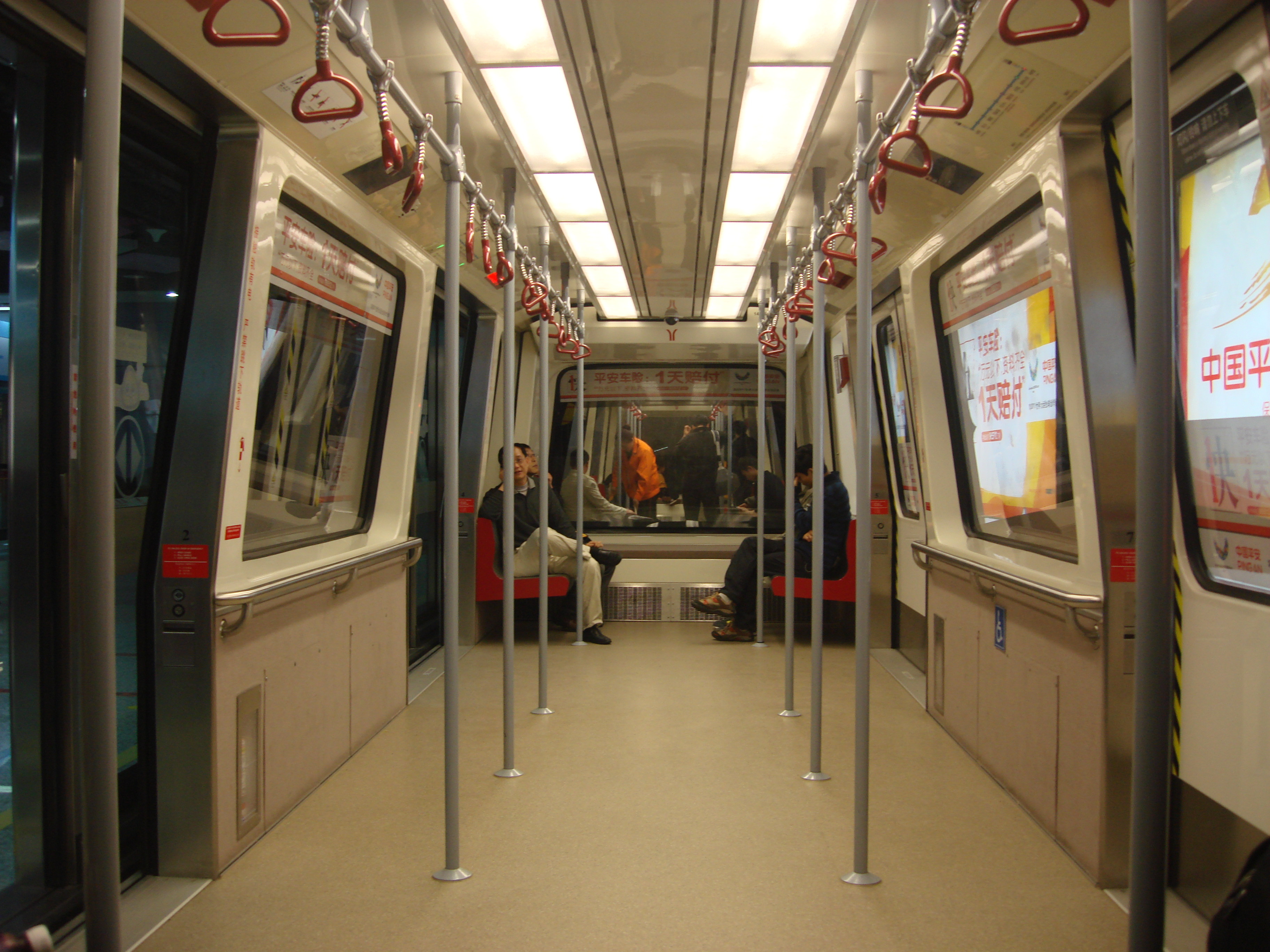 Train of APM Line.